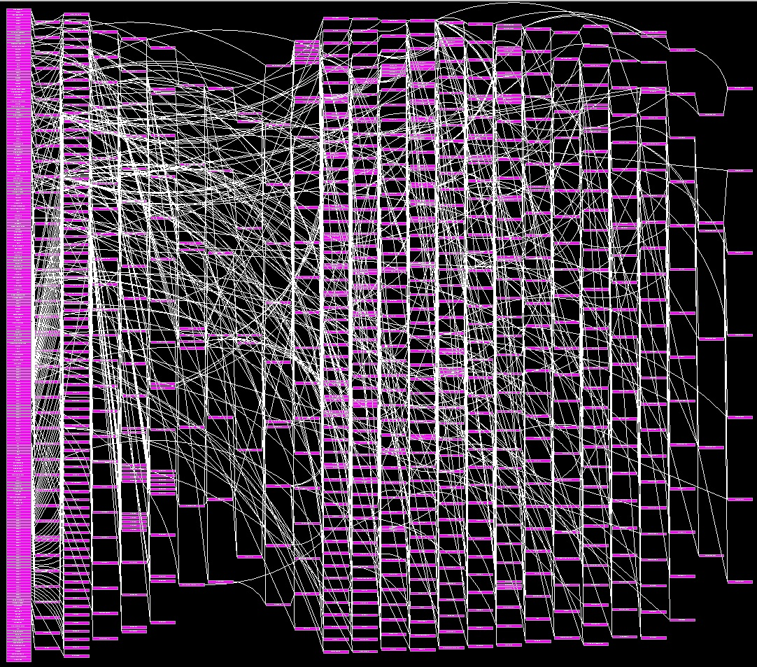 The figure shows five generation pedigree with complex flow of genes - drawn with "Pedimap" software